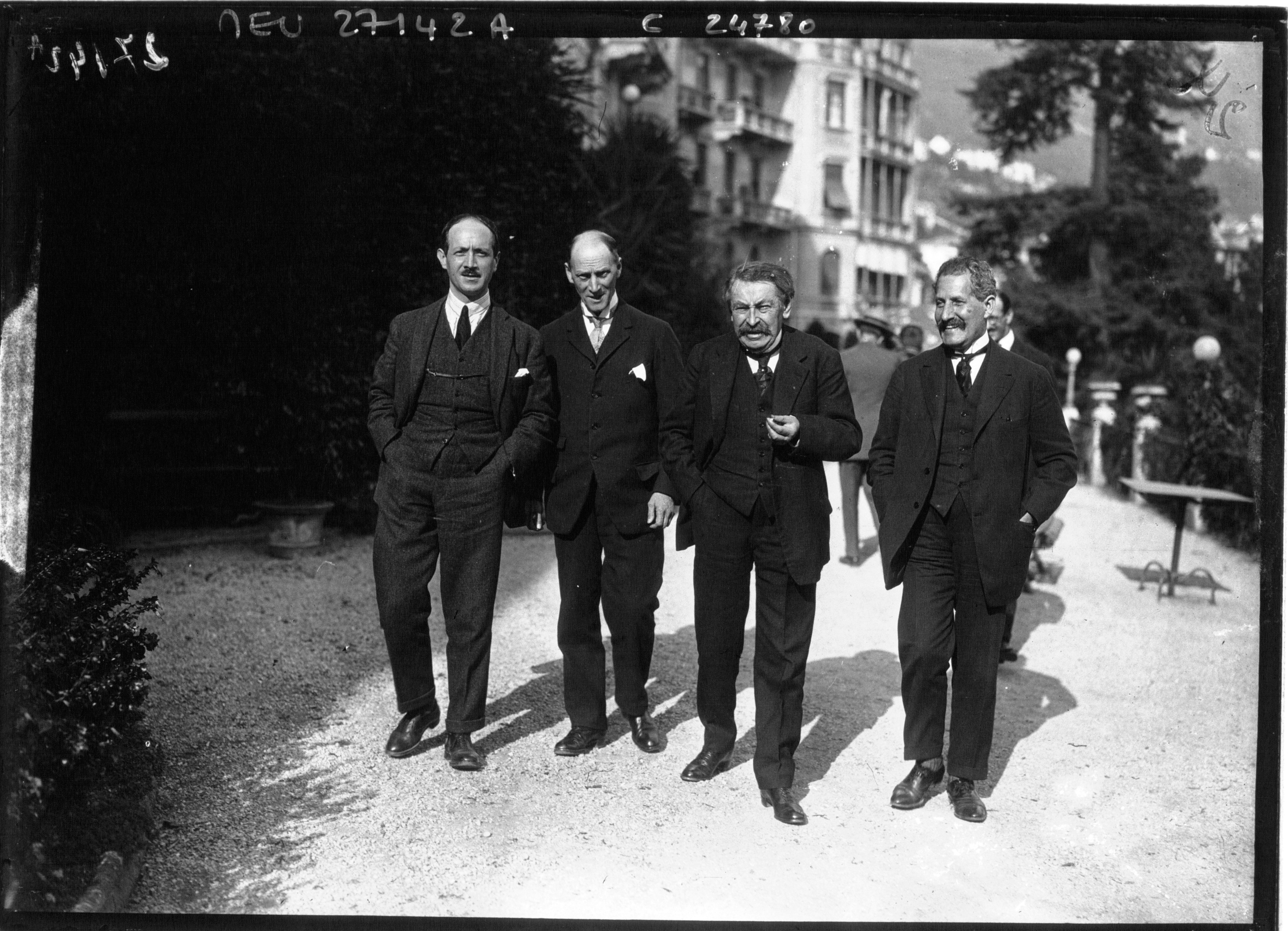 Locarno Treaties, 1925. From left to right : Alexis Leger (Saint-John Perse), Henri Fromageot, Aristide Briand, Philippe Berthelot.